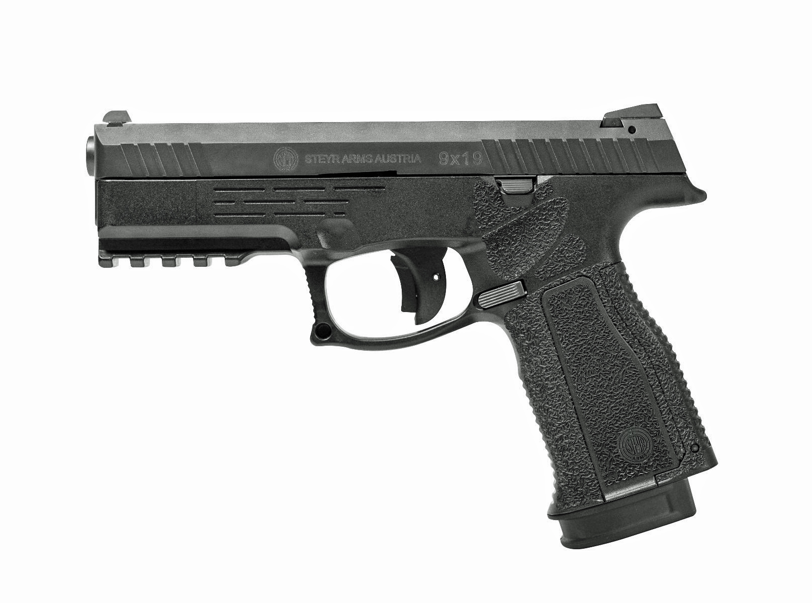 Steyr L9-A2 MF 9×19mm Parabellum semi-automatic pistol